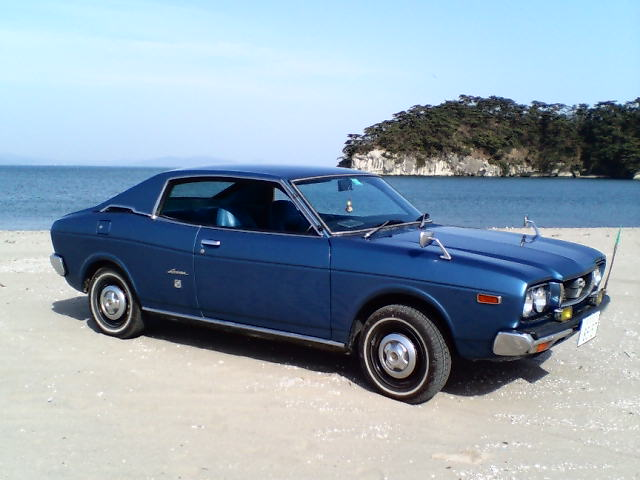 1971 Subaru Leone hardtop coupé